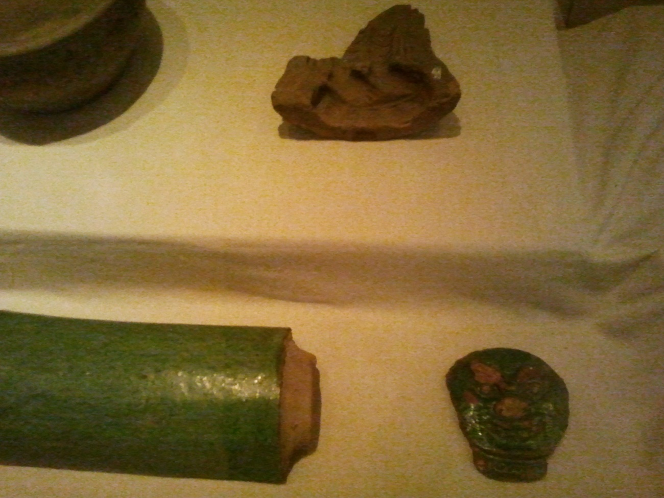 13th century palace fragments from Karakorum, Mongolia.